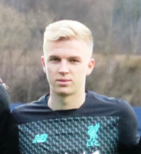 Luis Longstaff before a game against Red Bull Salzburg U19